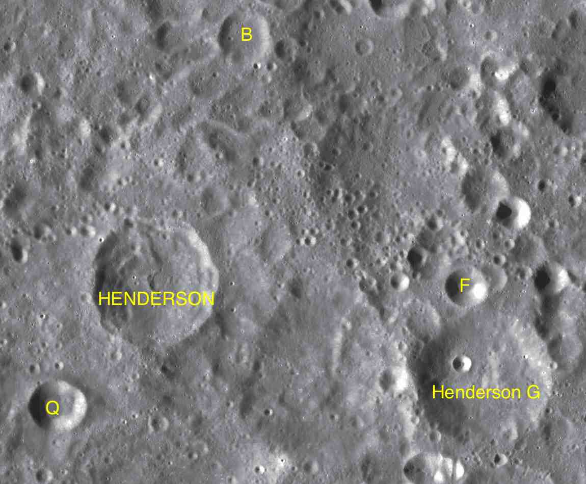 Part of the chart LAC-67 used for the presentation